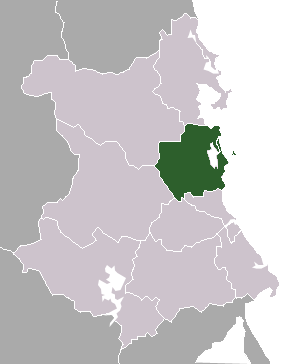 Location of Tuy An in Phu Yen Province